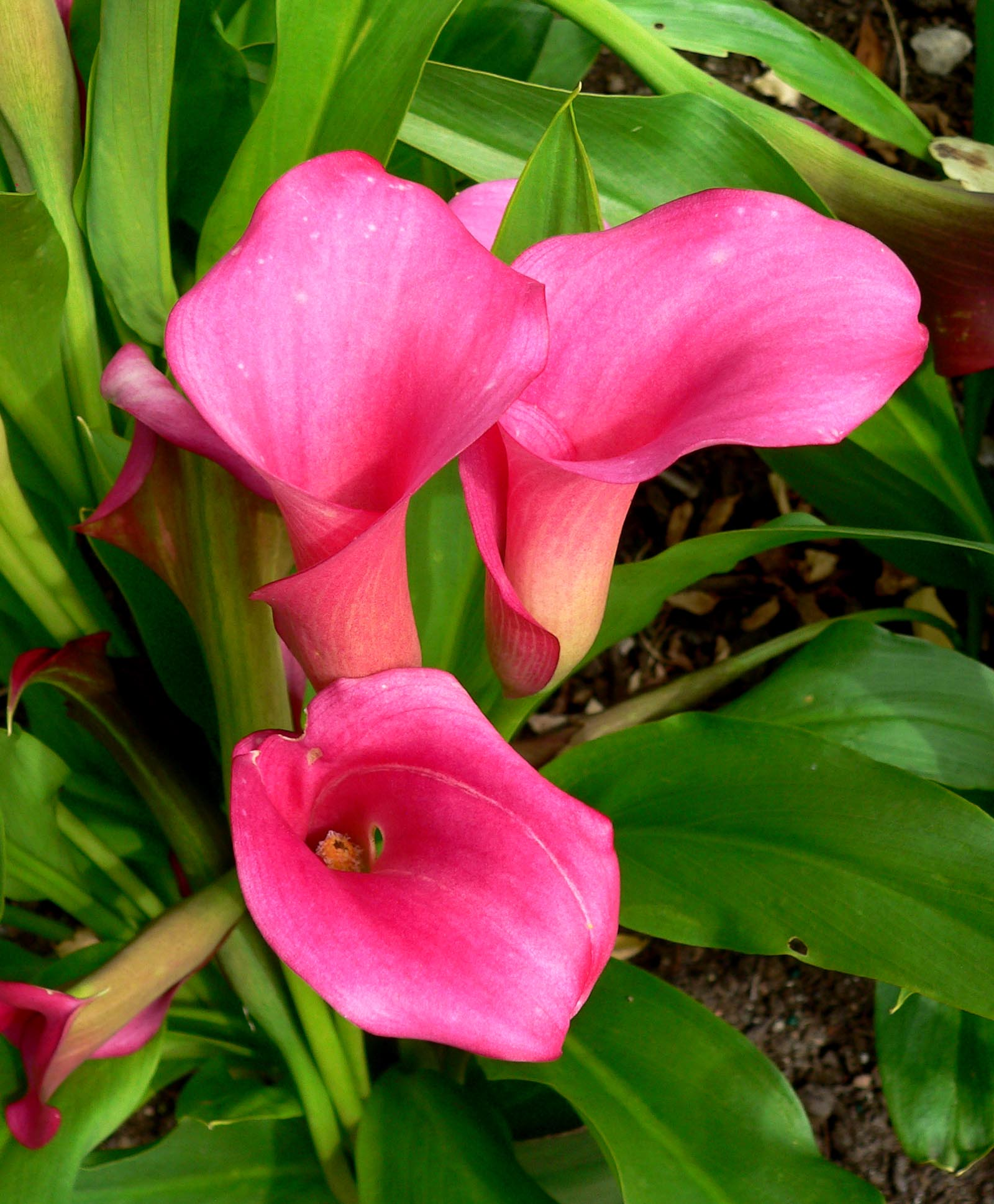 Photo of Zantedeschia 'Neon Amour' at VanDusen Botanical Garden